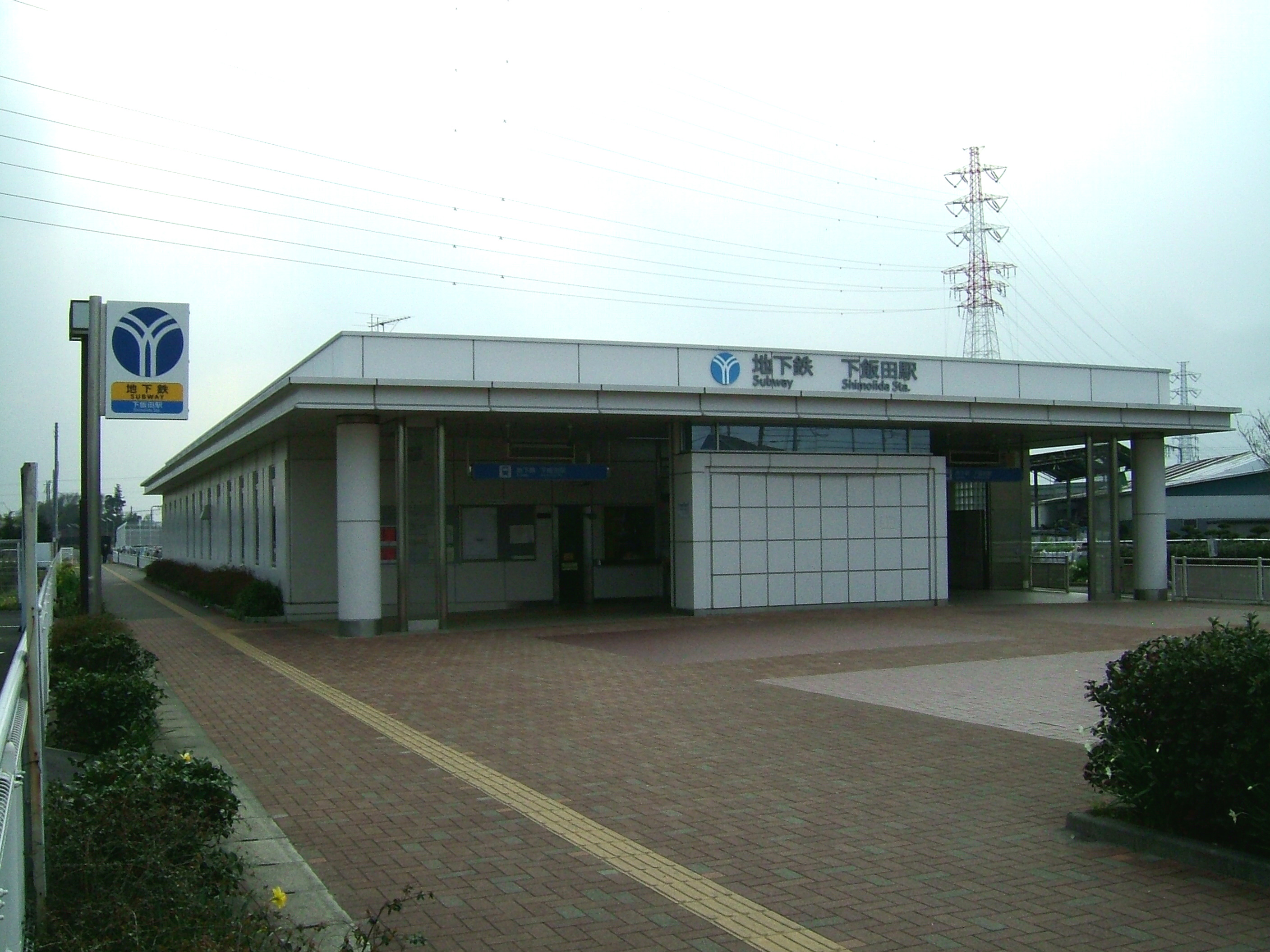 Shimoīda Station building (Yokohama Municipal Subway Blue Line)